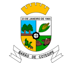 The Barão de Cotegipe coat-of-arms is in the public domain